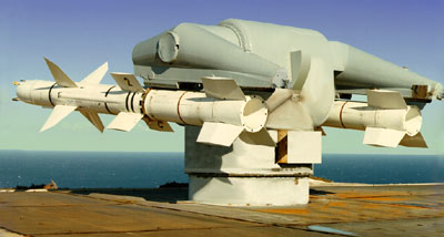 A U.S. Navy MQM-8G Vandal missiles on a launcher at San Nicolas Island, California (USA). The Vandal was a version of the RIM-8 Talos missile, which was retired in 1979. The remaining Talos missiles were converted to MQM-8G supersonic targets, simulating anti-ship missiles.